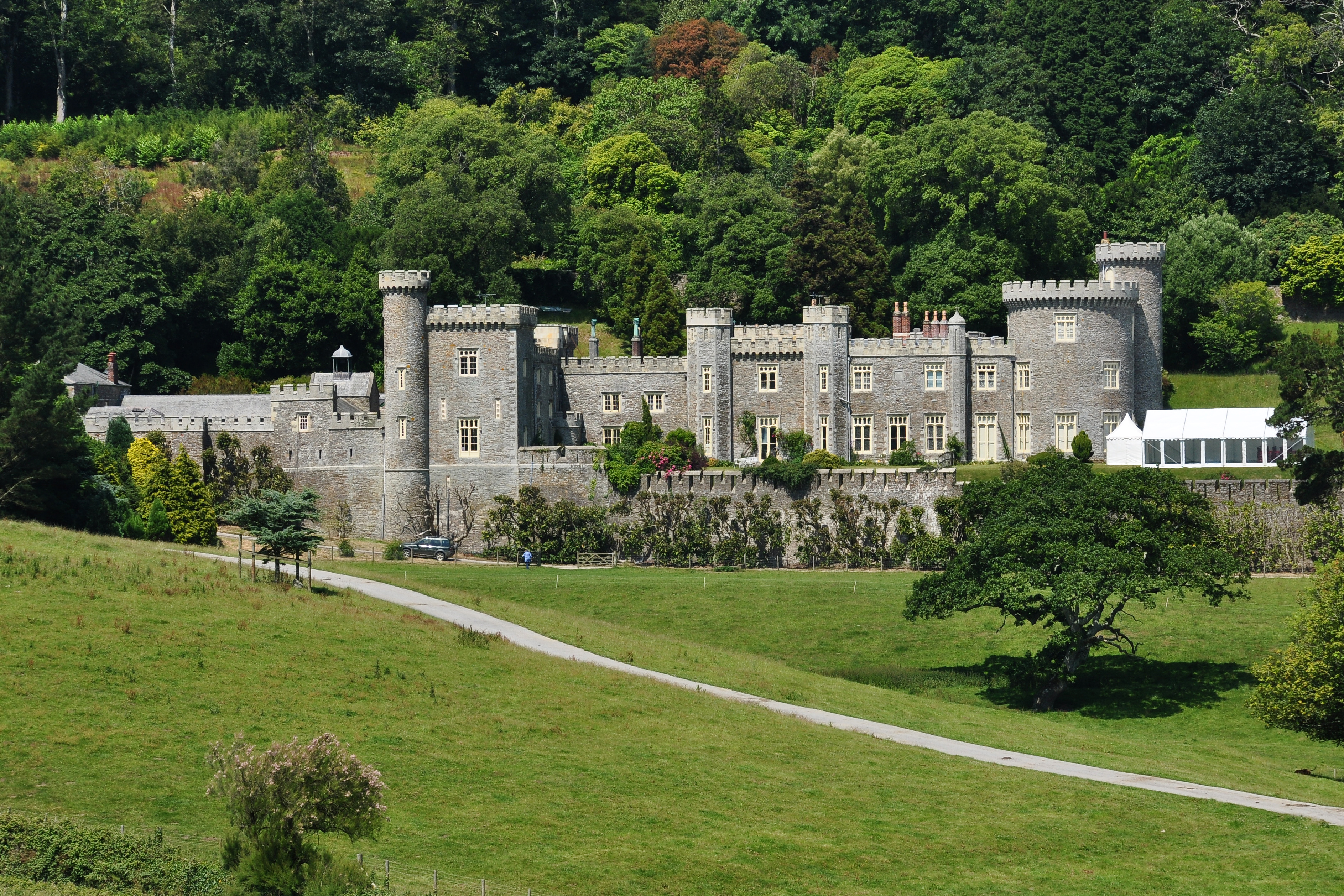 Caerhayes Castle, near St Austell in Cornwall.